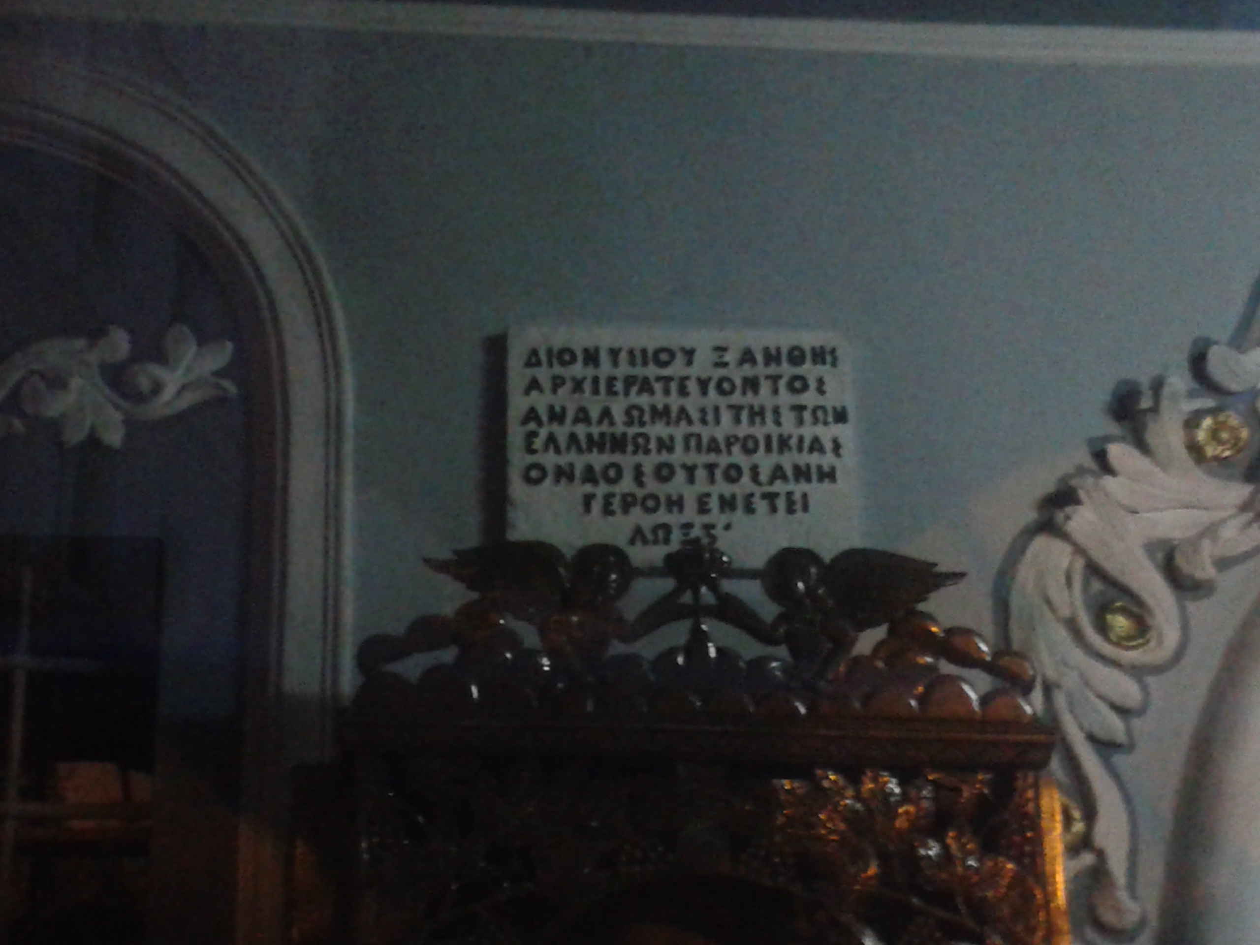 Plaque in St. John the Baptist Church in Kavala.